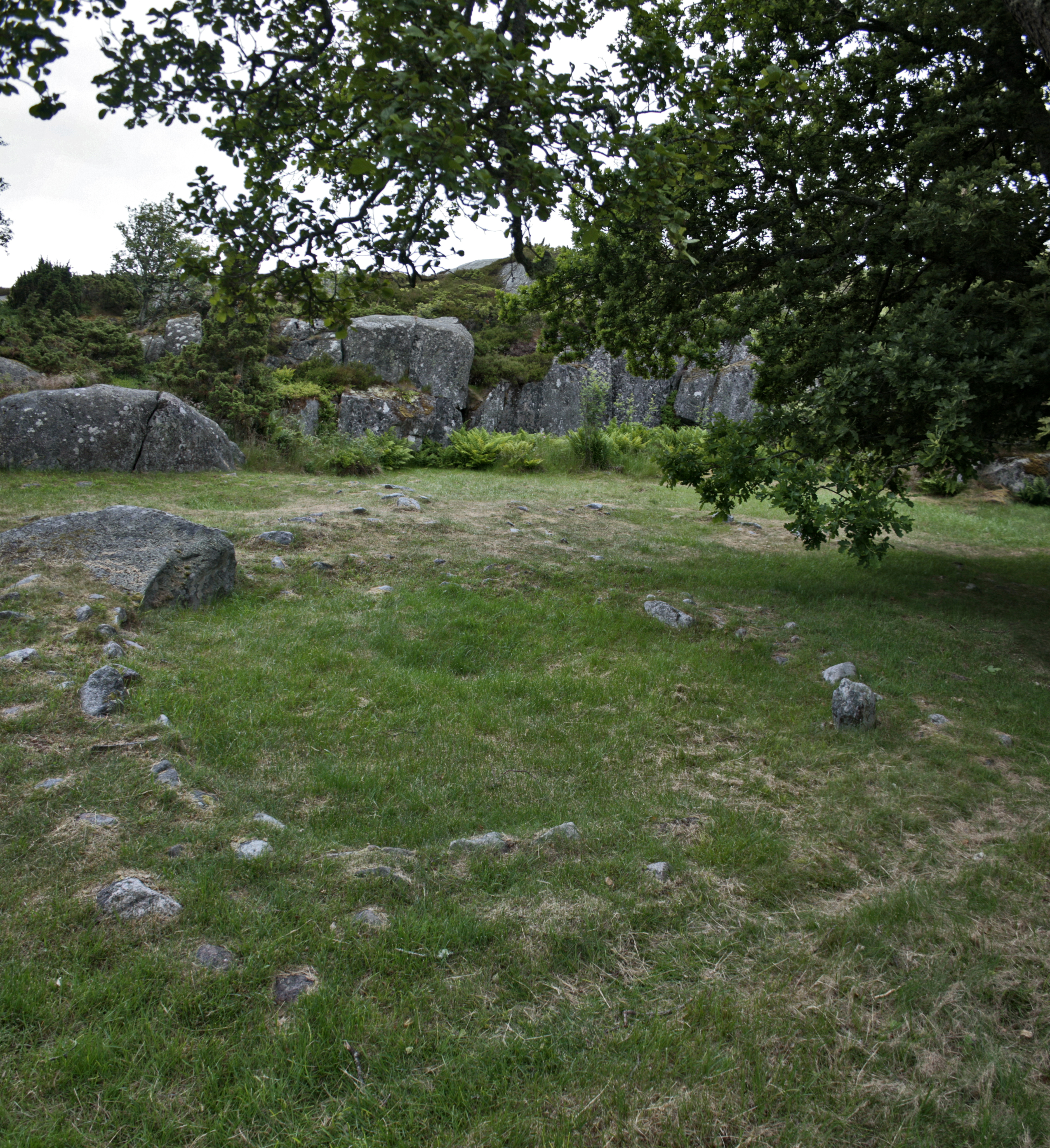 Site (brons age) in Otterböte in Kökar island, Åland, Finland